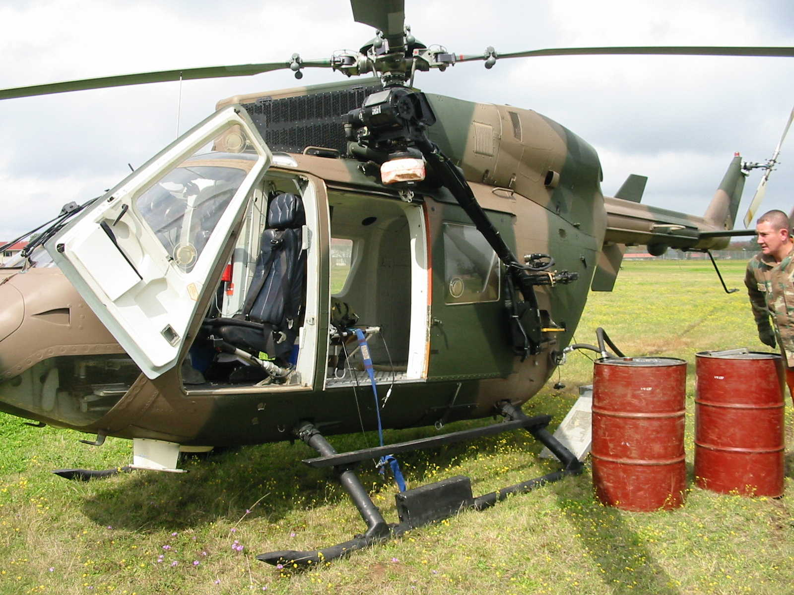 South African National Defense Force Annual Game Census This is an image of "African people at work" from South Africa